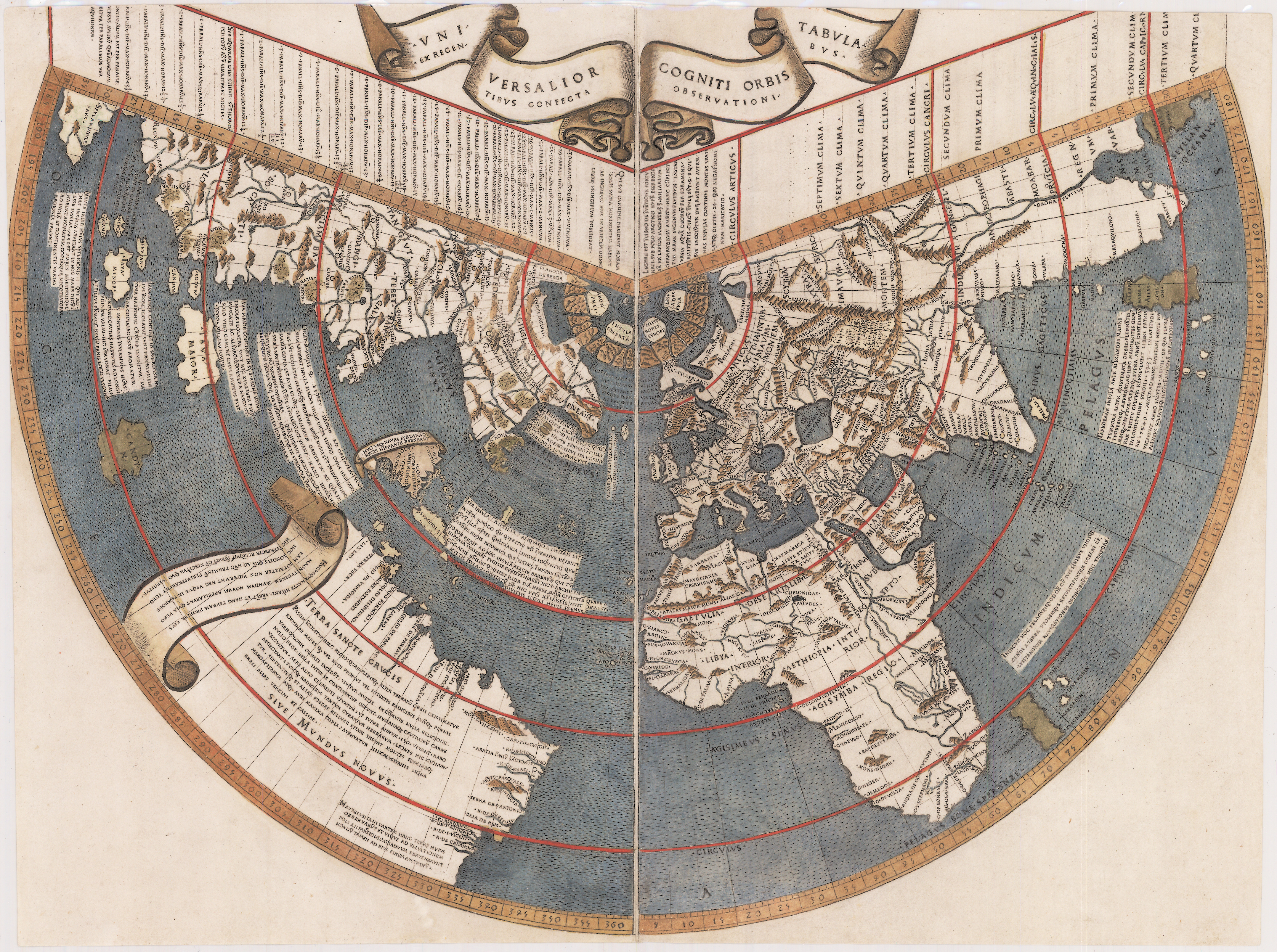 Johann Ruysch world map (1507-1508)